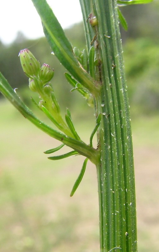 Stems are unbranched, hairless or nearly so, and to 80 cm tall (usually shorter)